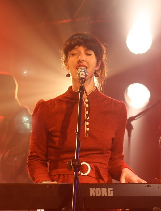 Taken at Gwyl Hanner Cant, a gig to celebrate 50 years of Cymdeithas yr Iaith Gymraeg (the Welsh Language Society).